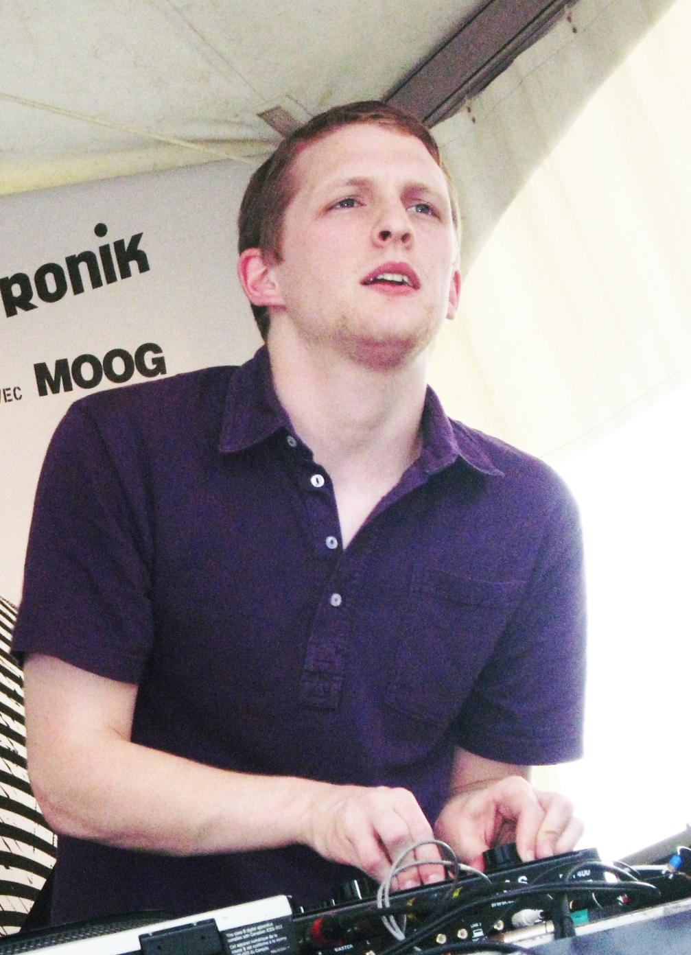 Floating Points at Piknic 1 in 2011